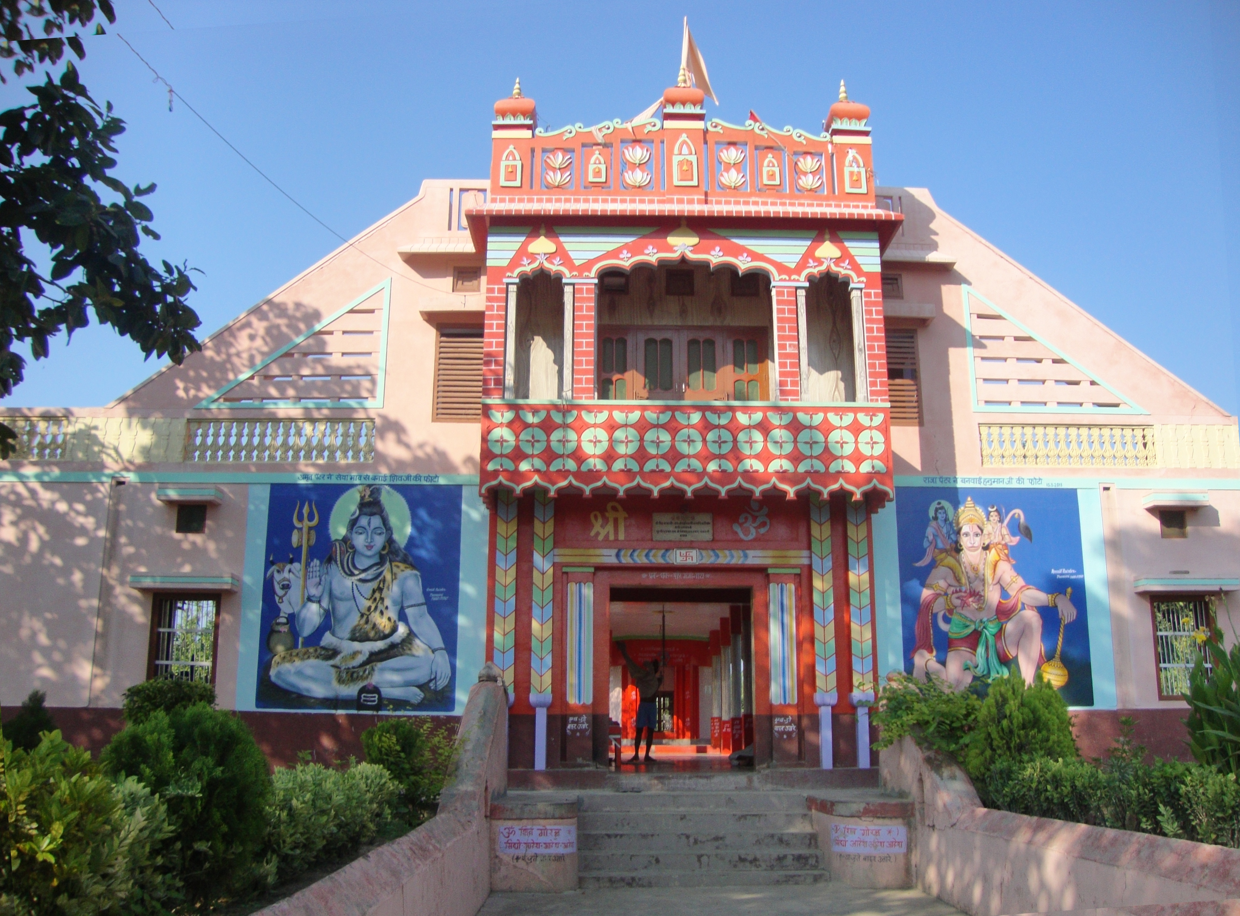 Baba Khar Nath temple is a beautiful shrine that was built over the Samadhi of Baba Khar Nath